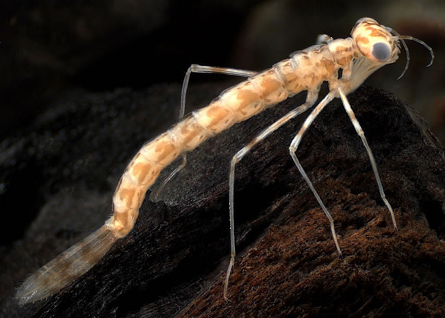 Austrolestes colensonis nymph